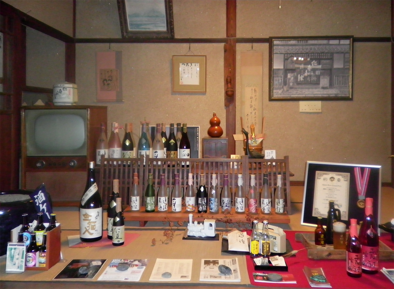 Inside Minakuchi shuzou in Matsuyama, Ehime, Japan